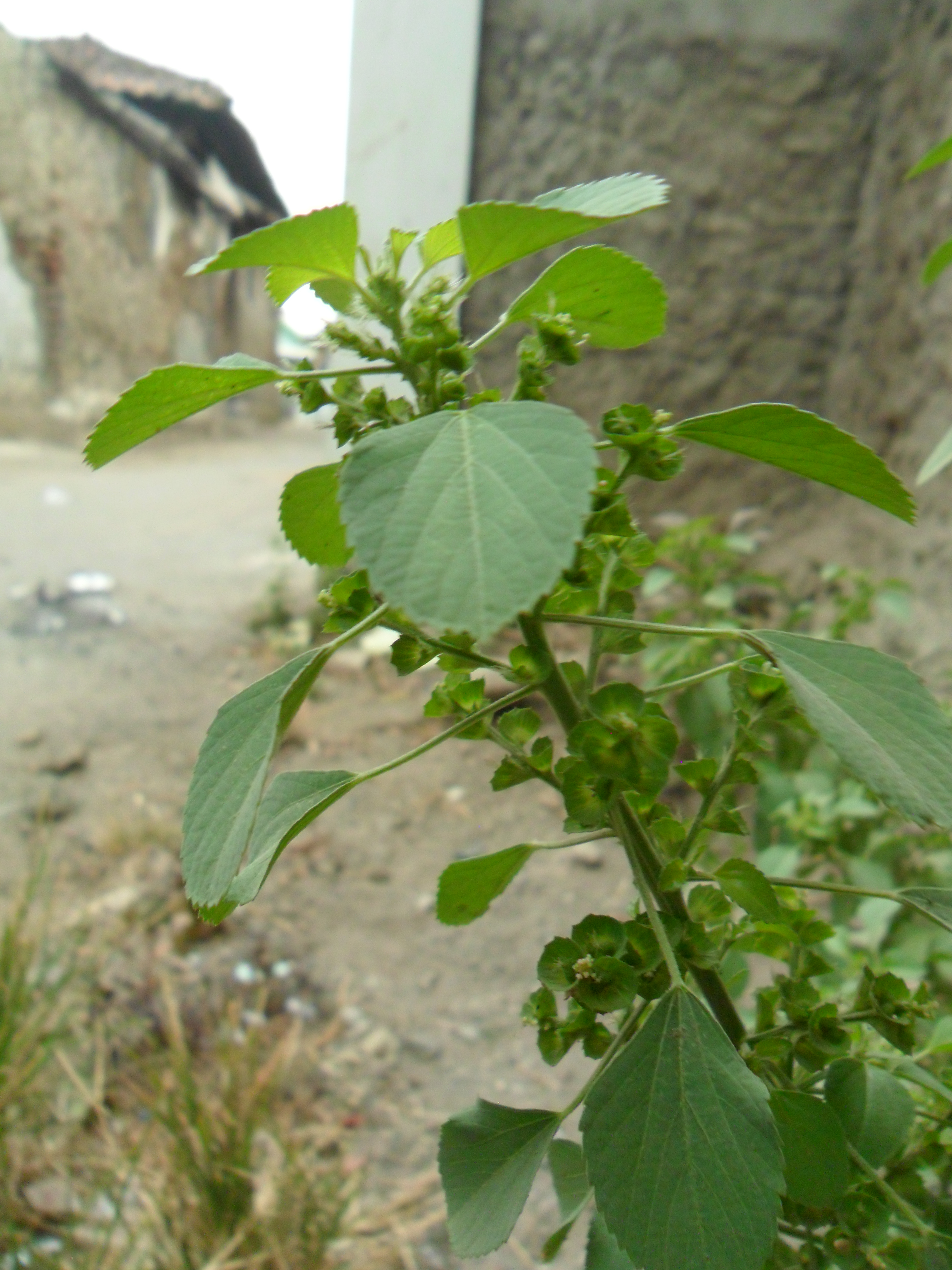 Acalypha indica